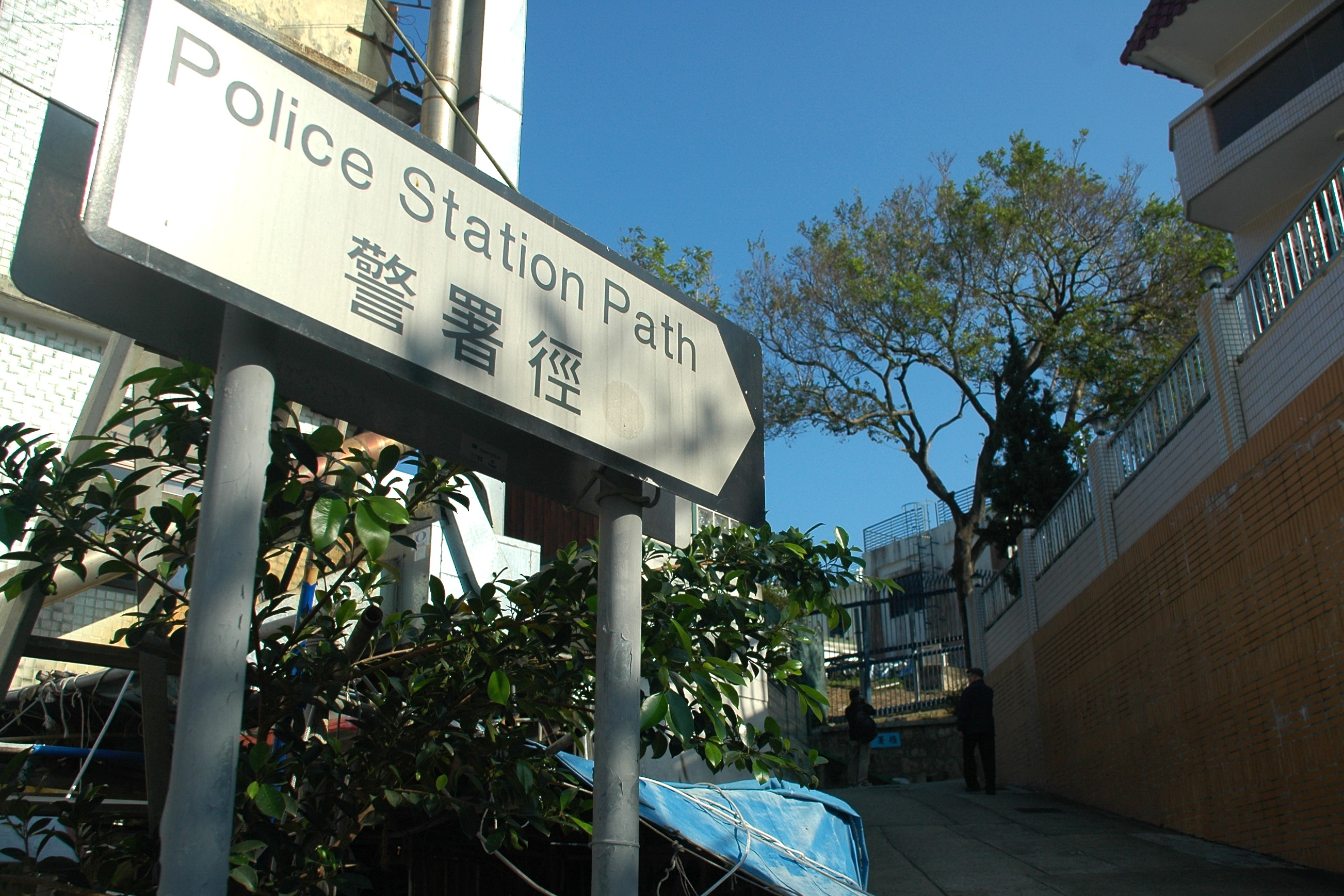 Police Station Path, Cheung Chau, Hong Kong.